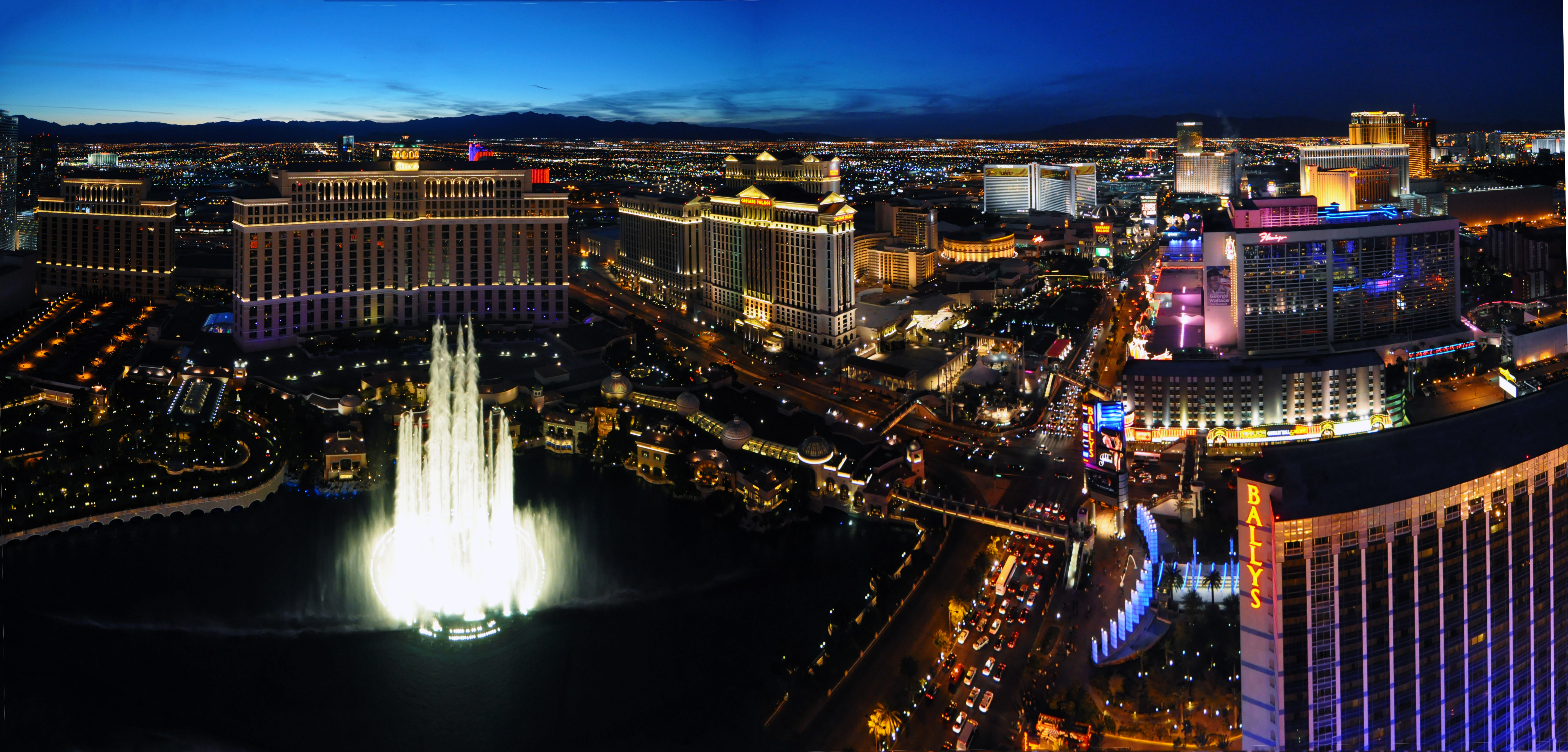 Las Vegas Strip Bellagio Caesar's Palace